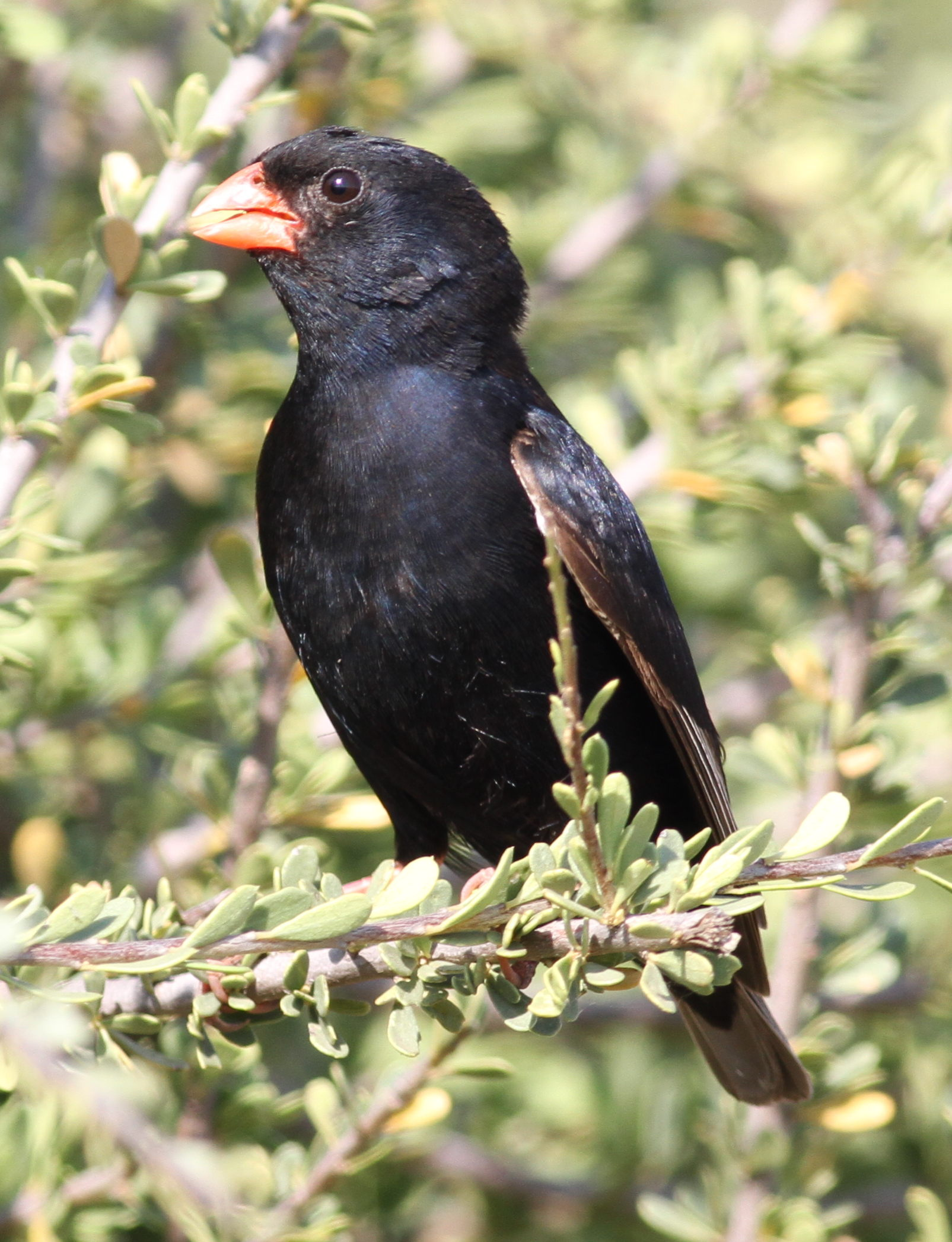 Village indigobird, Vidua chalybeata, at Mapungubwe National Park, Limpopo, South Africa (male)